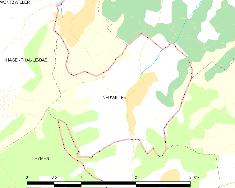 Map of French municipality